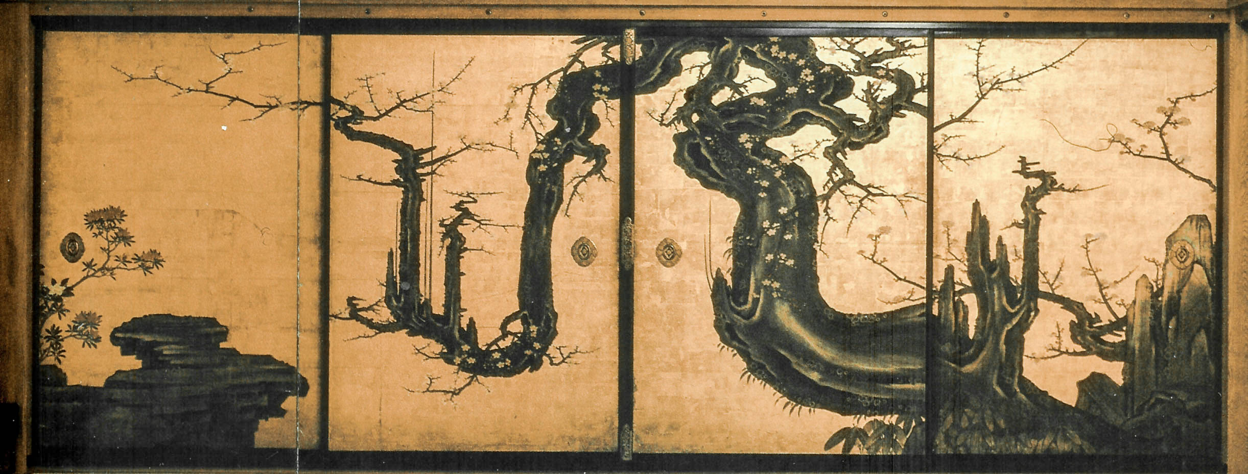 Kano Sansetsu Fusuma. See Metropolitan Museum of Art page (with better pic). The Old Plum, Attributed to Kano Sansetsu (Japanese, 1589–1651) |Accession Number: 1975.268.48a–d Period: Edo period (1615–1868), ca. 1645 Culture: Japan Medium: Four sliding door panels (fusuma); ink, color, and gold on gilded paper